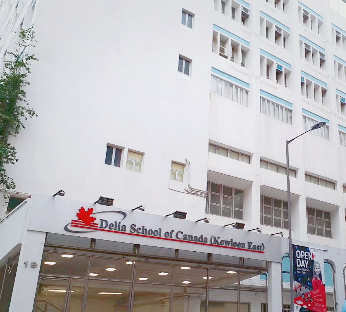 Delia School of Canada Kowloon East